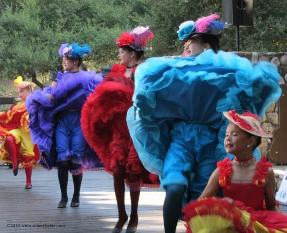 Santa Barbara French Festival